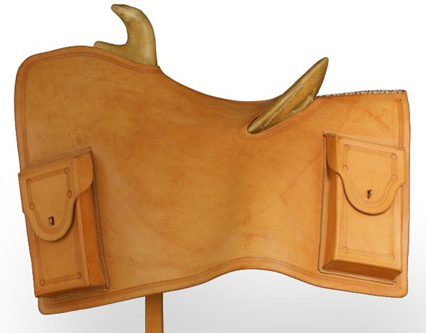 Pony Express mochila exhibit from the Smithsonian National Postal Museum